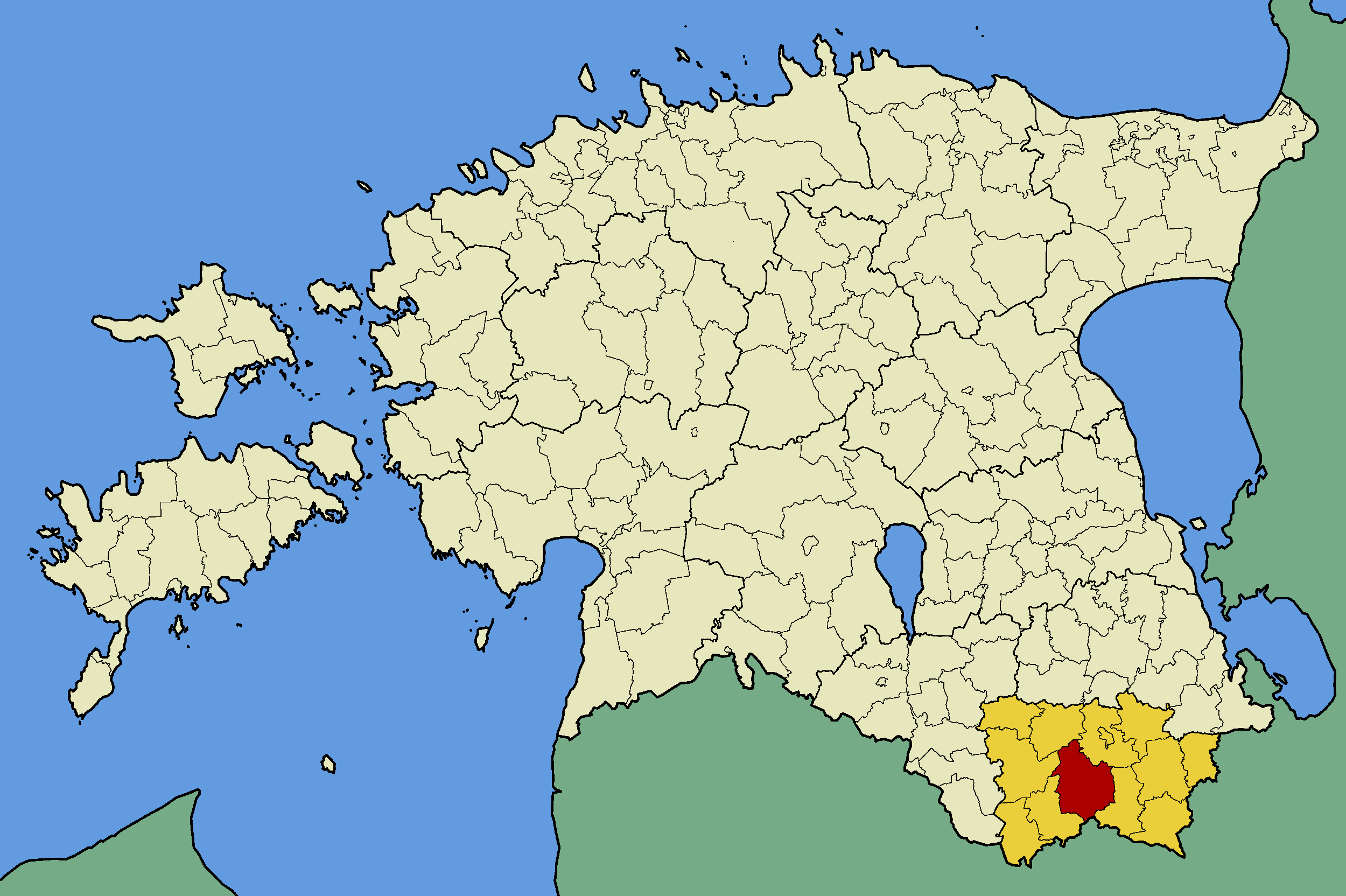 Map of Estonia with borders of municipalities (parishes). Võru county and Rõuge municipality emphasized.